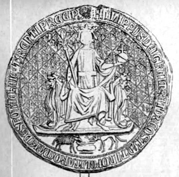 Seal of Philip I of Taranto